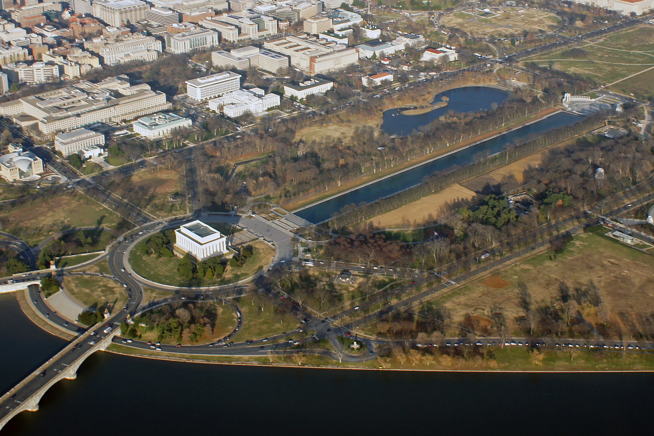 Aerial view Lincoln Memorial, Lincoln Memorial Reflecting Pool, Vietnam Veterans Memorial and National World War II Memorial. National Mall, Washington, D.C.